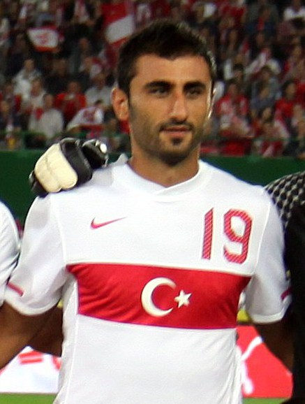 Selçuk Şahin, cropped from Turkey national football team against Austria 2011-09-06 (0:0)